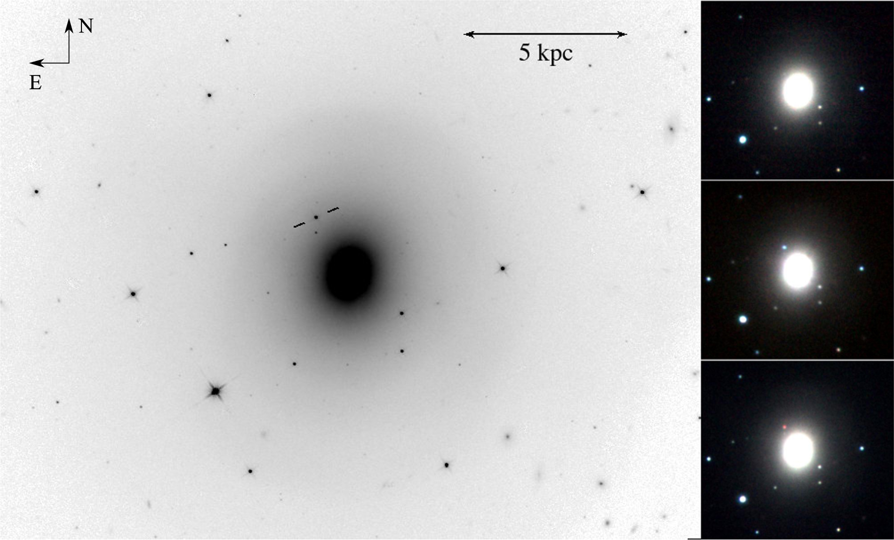 Main panel shows the first-epoch F110W HST/WFC3-IR image of the field of AT2017gfo indicating its location within NGC 4993. The physical scale assuming a distance of 40 Mpc is shown. The sequence of panels on the right shows VISTA imaging (RGB rendition created from $Y,J,{K}_{s}$ images) from pre-discovery (2014; top), discovery (middle), and at 8.5 days post-merger as the transient was fading and becoming increasingly red (bottom).